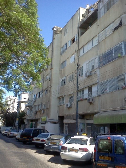 The building in 41 Rabbi Akiva st. in Haifa, Israel, from which the clandestine Levant Free France radio station broadcasted in 1941